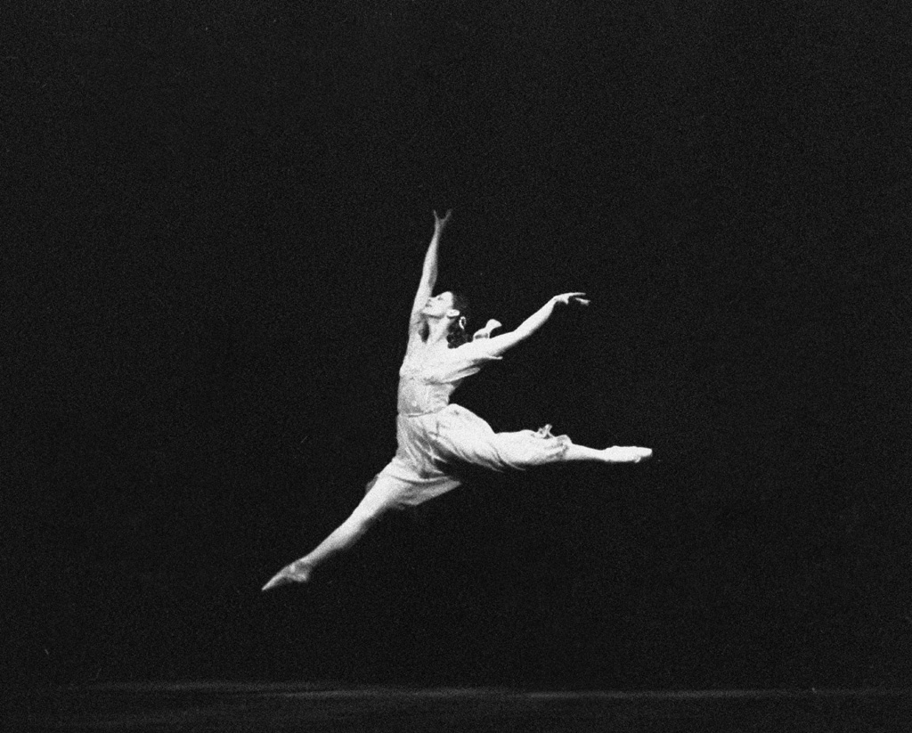 “Maya Plisetskaya in Sergei Prokofyev's Romeo and Juliet ballet”. Maya Plisetskaya in Sergei Prokofyev's Romeo and Juliet ballet. The USSR Bolshoi Theatre (currently, the State Academic Opera and Ballet Theater of Russia).